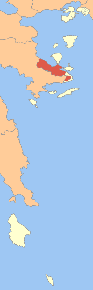 Locator map of Trizina municipality (Δήμος Τροιζήνας) in Pireas Nomarchia (Νομαρχία Πειραιά) in Greece.